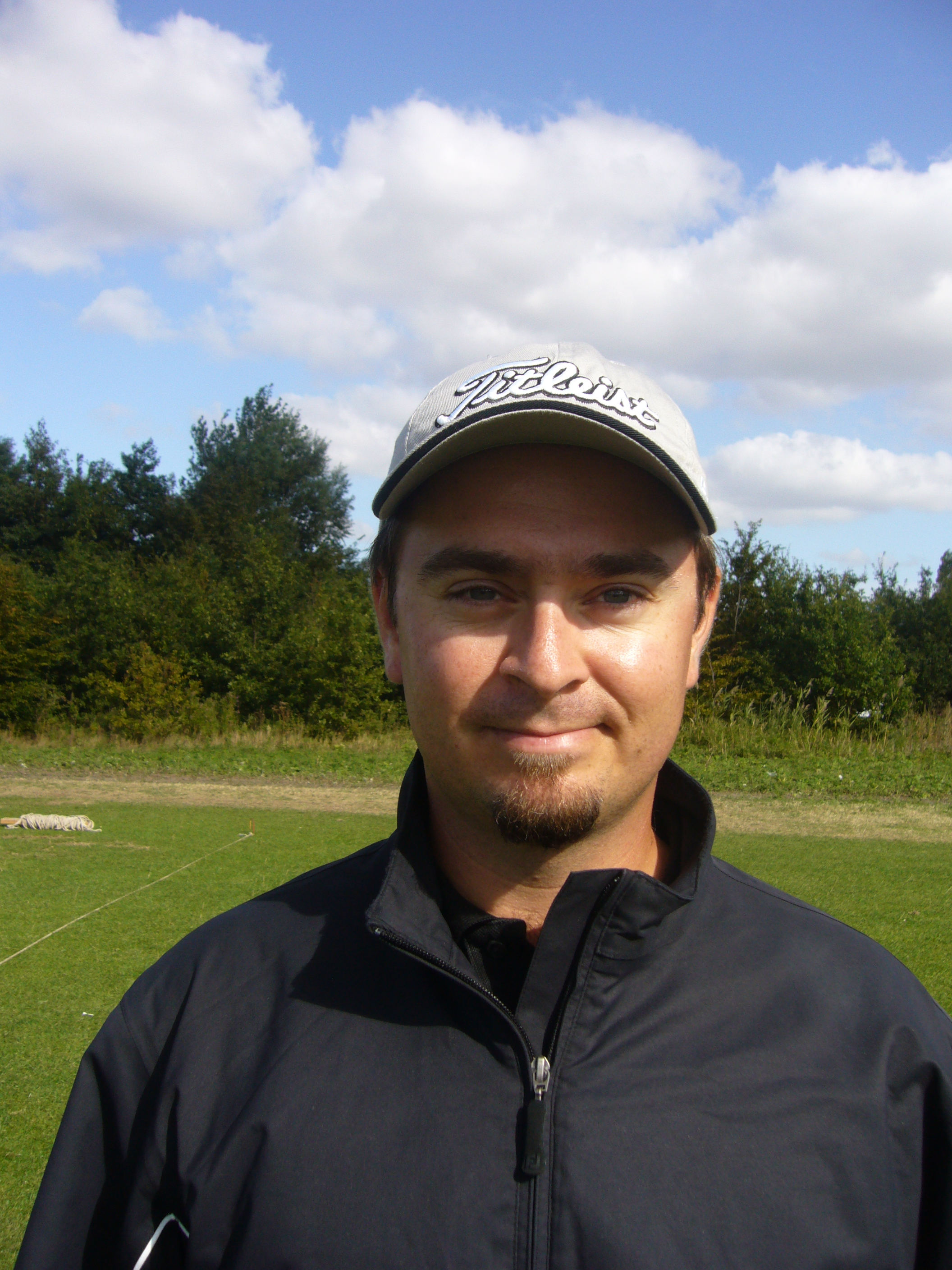 Mikko Korhonen at Dutch Futures in Holland